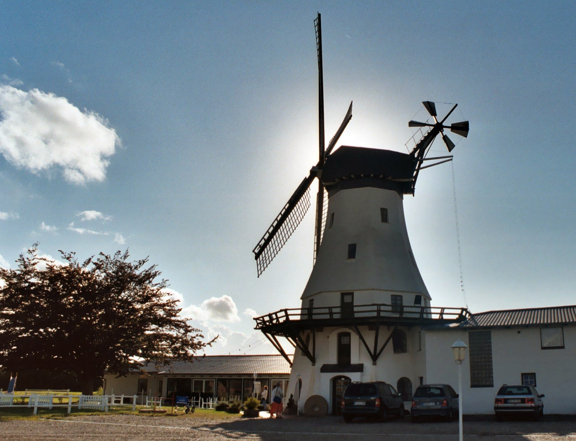 Westerholz, the windmill